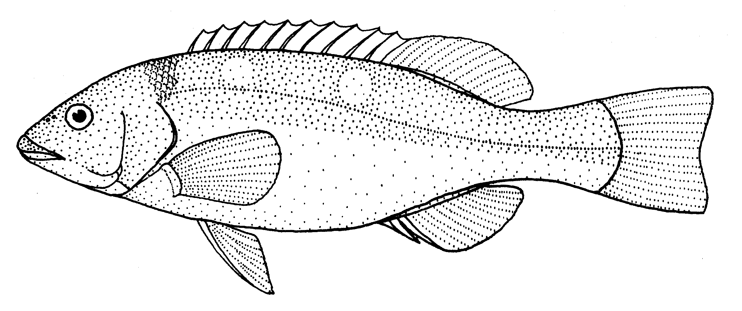 Bodianus frenchii (Foxfish)